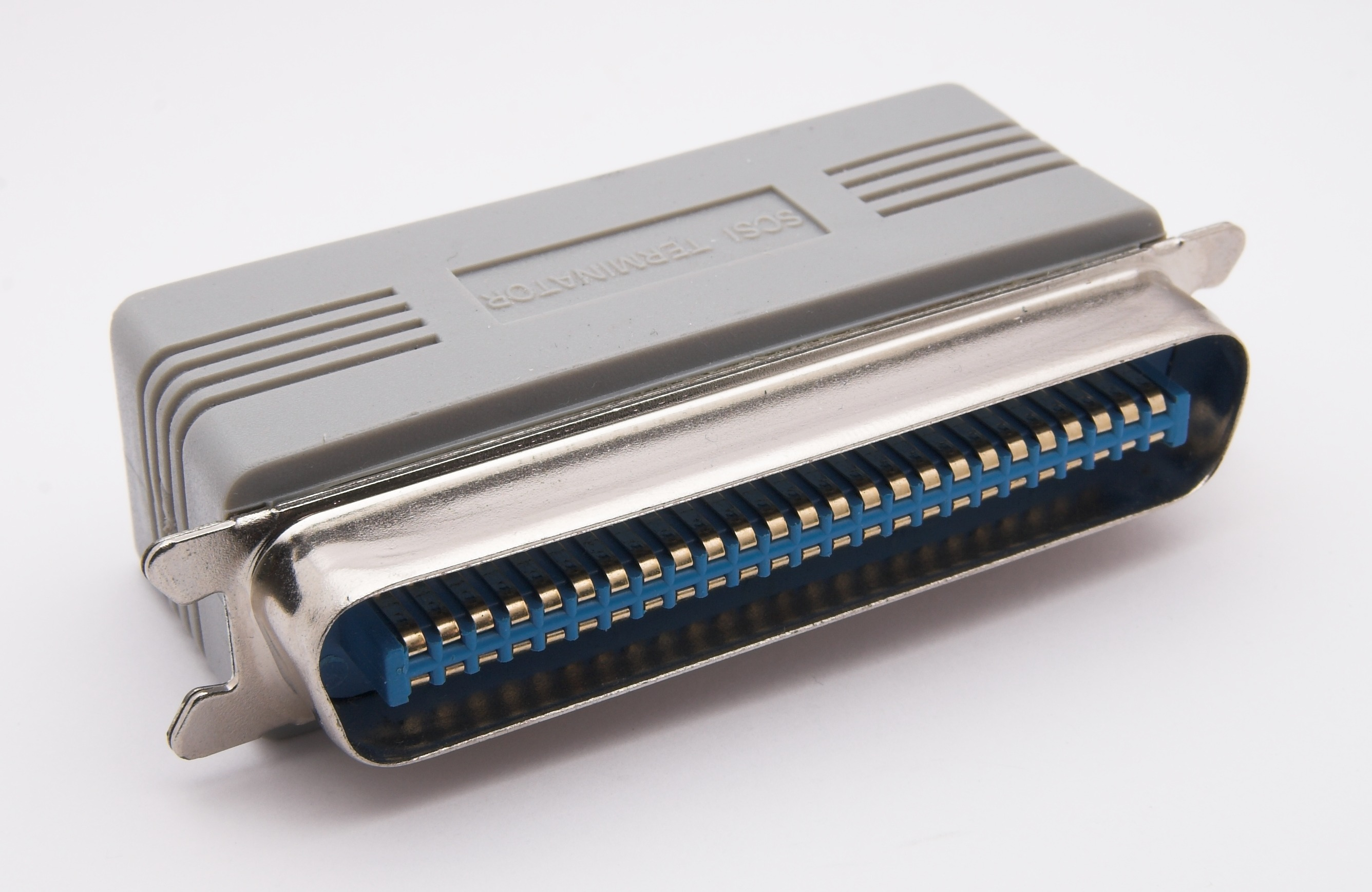 SCSI Terminator with 50-pin centronics connector Date